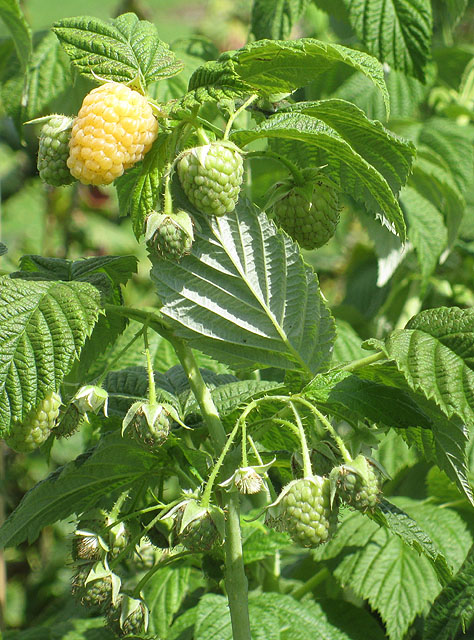 Yellow raspberry Rubus idaeus - a native species growing in the vegetable plots at Westbury Court Gardens. Care has been taken to use plants which would have been around in the 16th and 17th centuries.